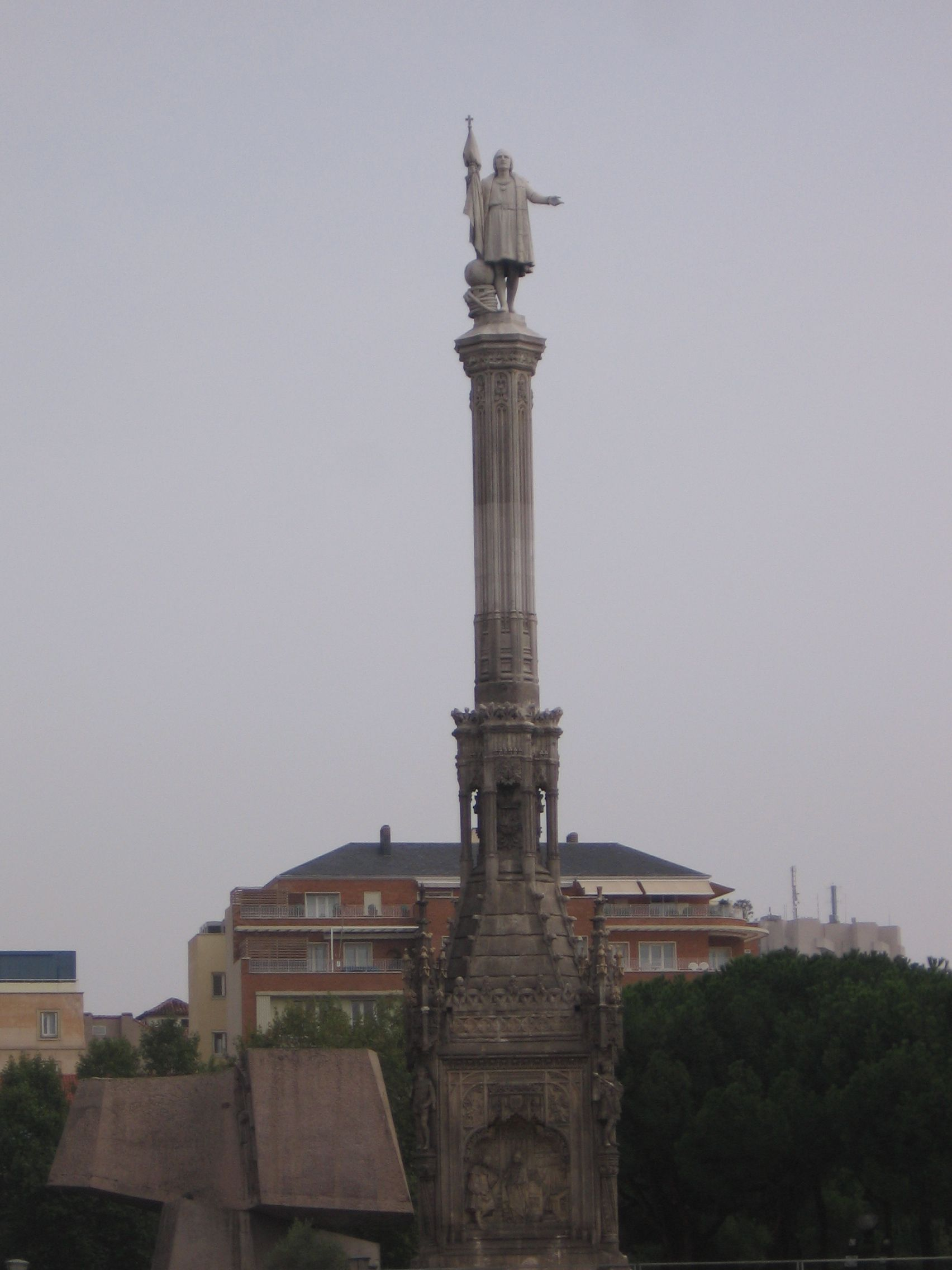 Statue of Christopher Columbus in Plaza de Colon, Madrid.